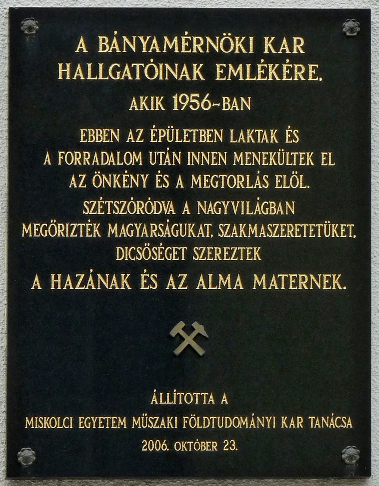 Commemorative plaque to the former Mining Faculties’ students of the University of Heavy Industry affixed to the front of their former residence. In 1956 the majority of students have left the university to emigrate abroad. The memorial plaque was placed by the Council of the Faculty of Earth Science and Engineering at the University of Miskolc to mark the 50th anniversary of the Hungarian Revolution of 1956. (Sopron, Erzsébet Street Nr 9)